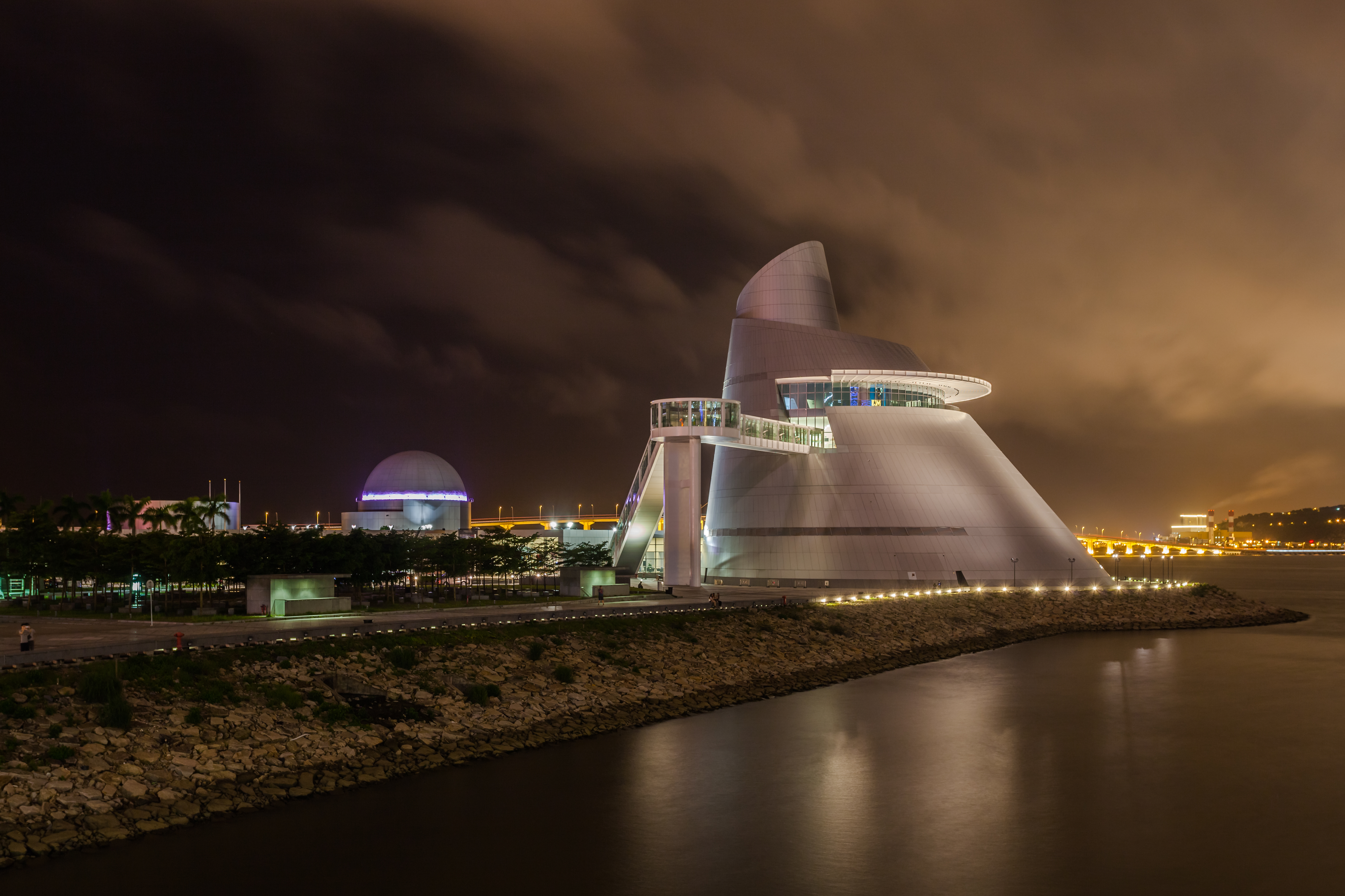 Macau Science Center, designed by I.M.Pei